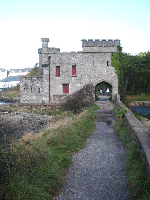 Radford Castle and dam An early C19th folly which sits at one end of the dam separating the freshwater Radford Lake from tidal Hooe Lake.